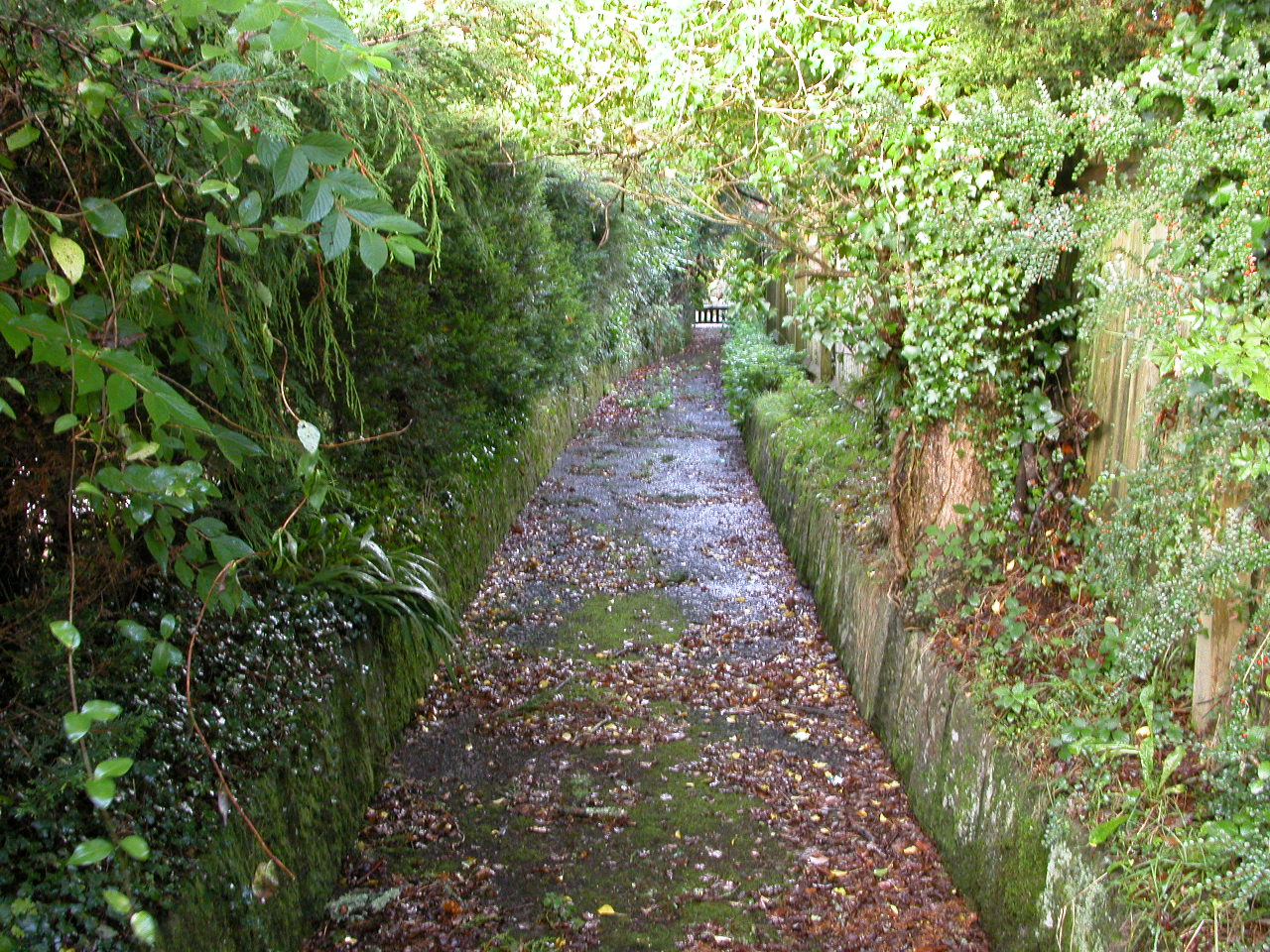 Sections of Drake's Leat still exist, like this section in the town of Yelverton, Devon.